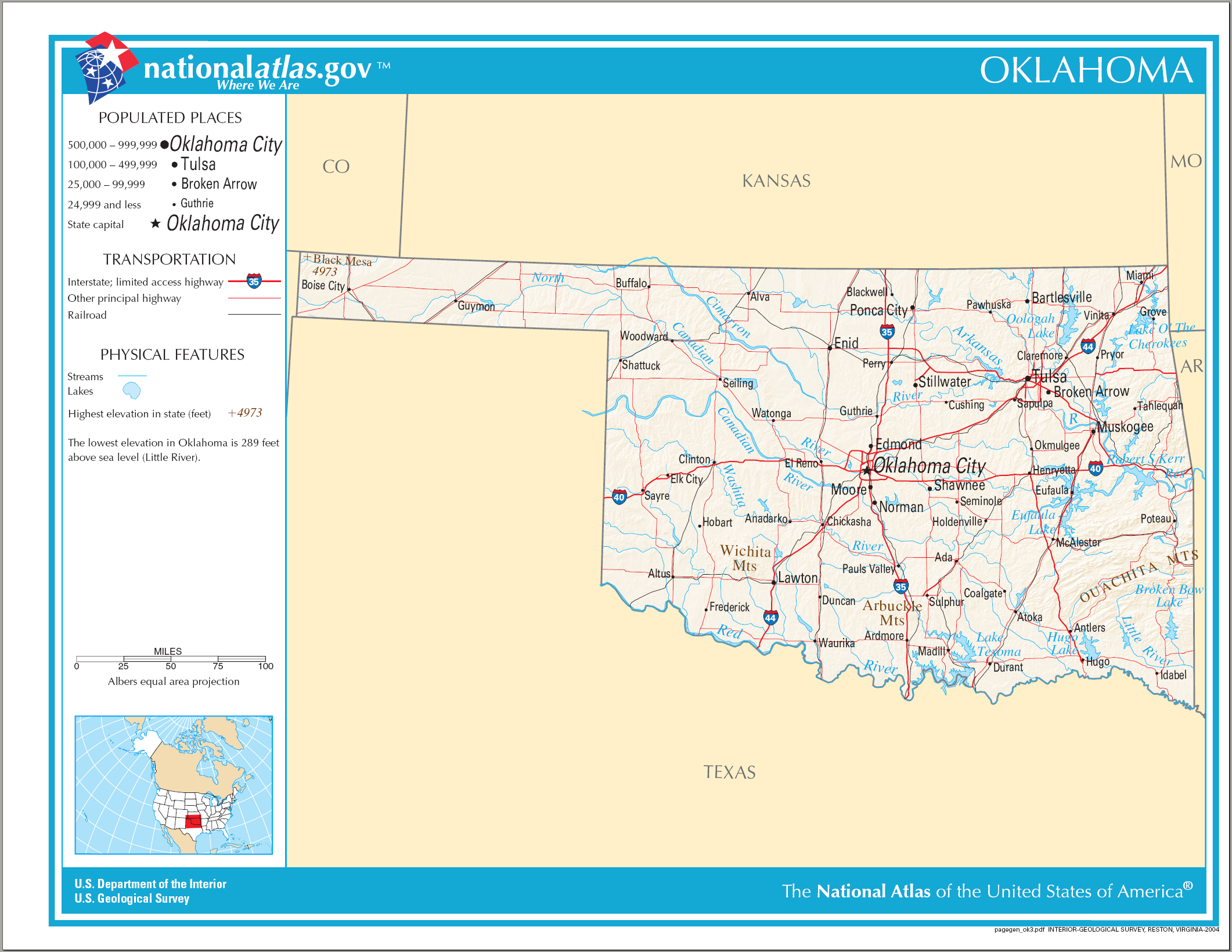 Map of Oklahoma.